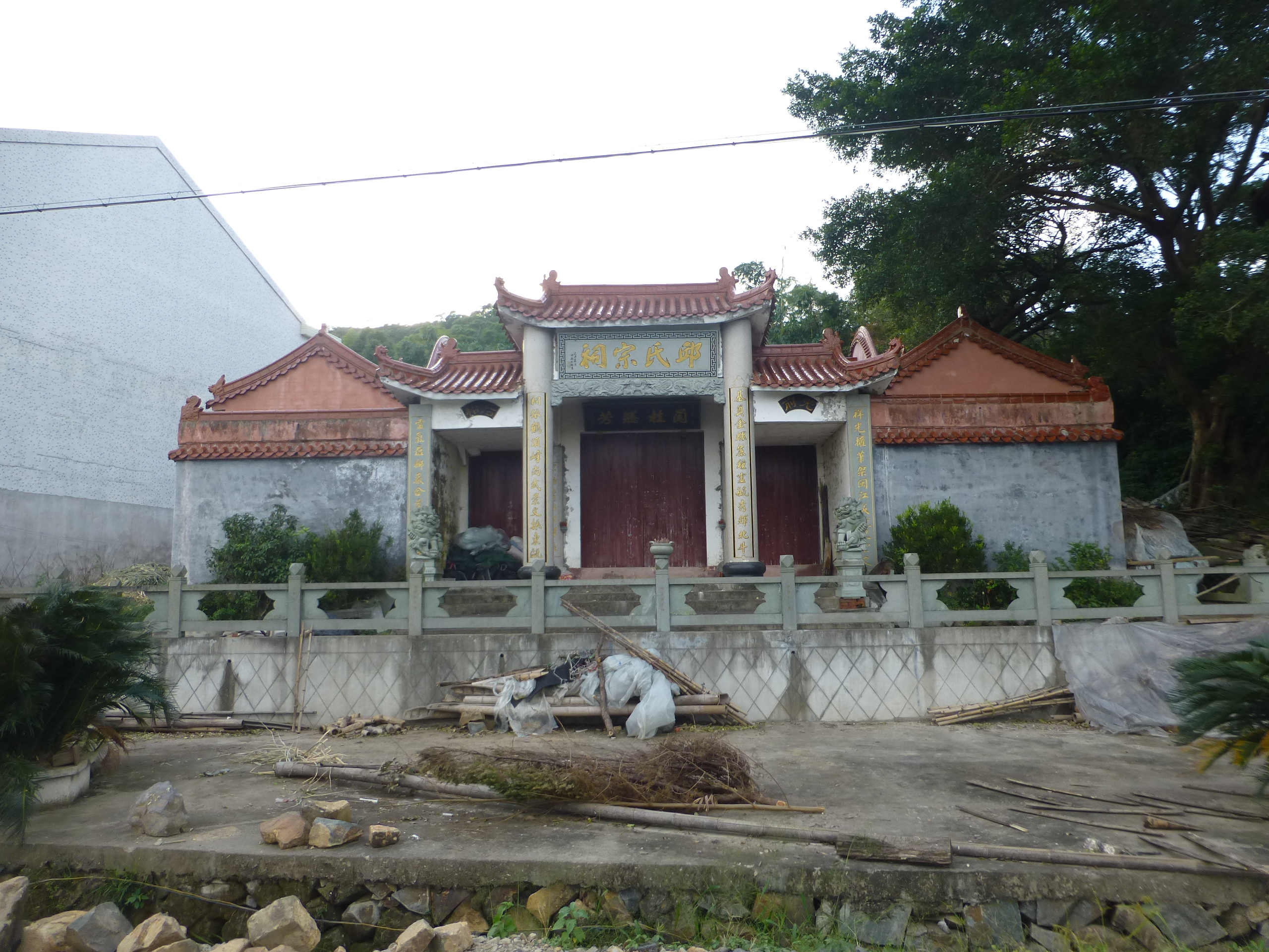 In or around Xiazai village, on the road south from Pucheng walled city. (Mazhan Township, Cangnan County, Zhejiang, China.)